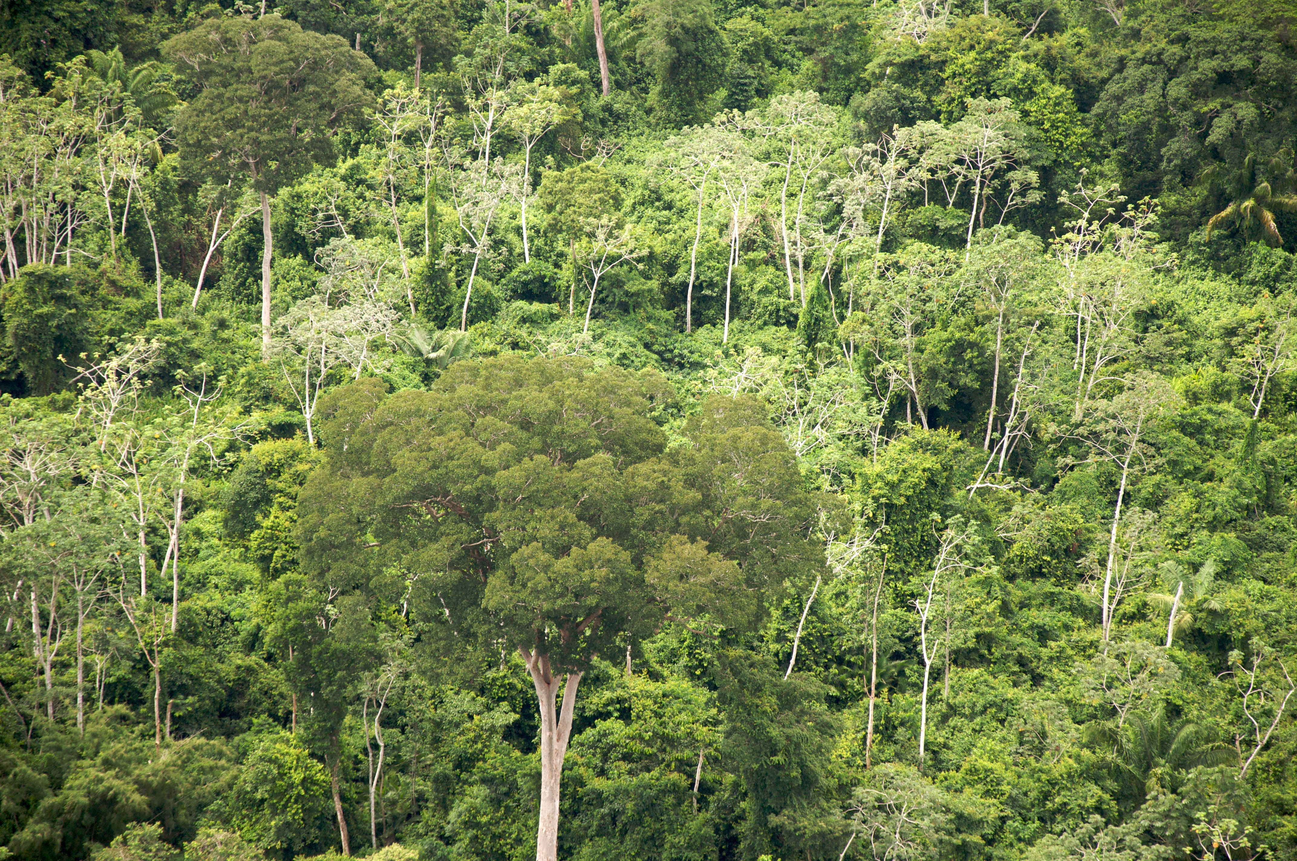 Gran árbol, Department of Santa Cruz